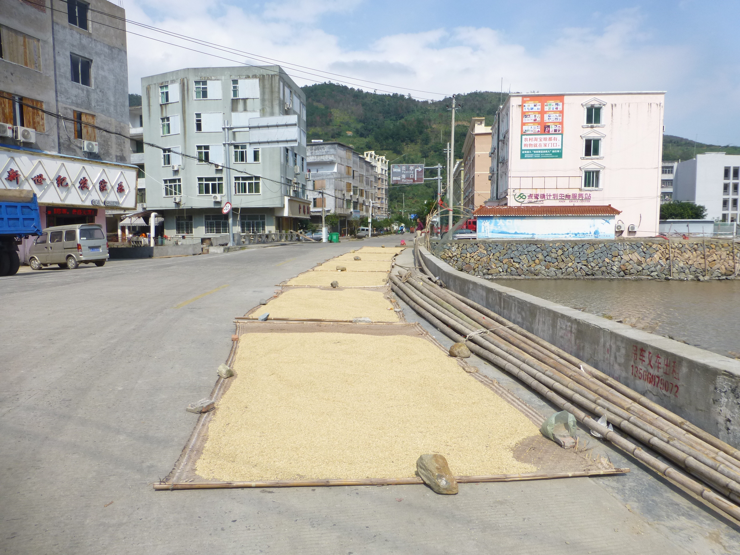 Rice being dried on a bamboo mat on the roadway, in the main street of Chixi Town. Cangnan County, Zhejiang, China.